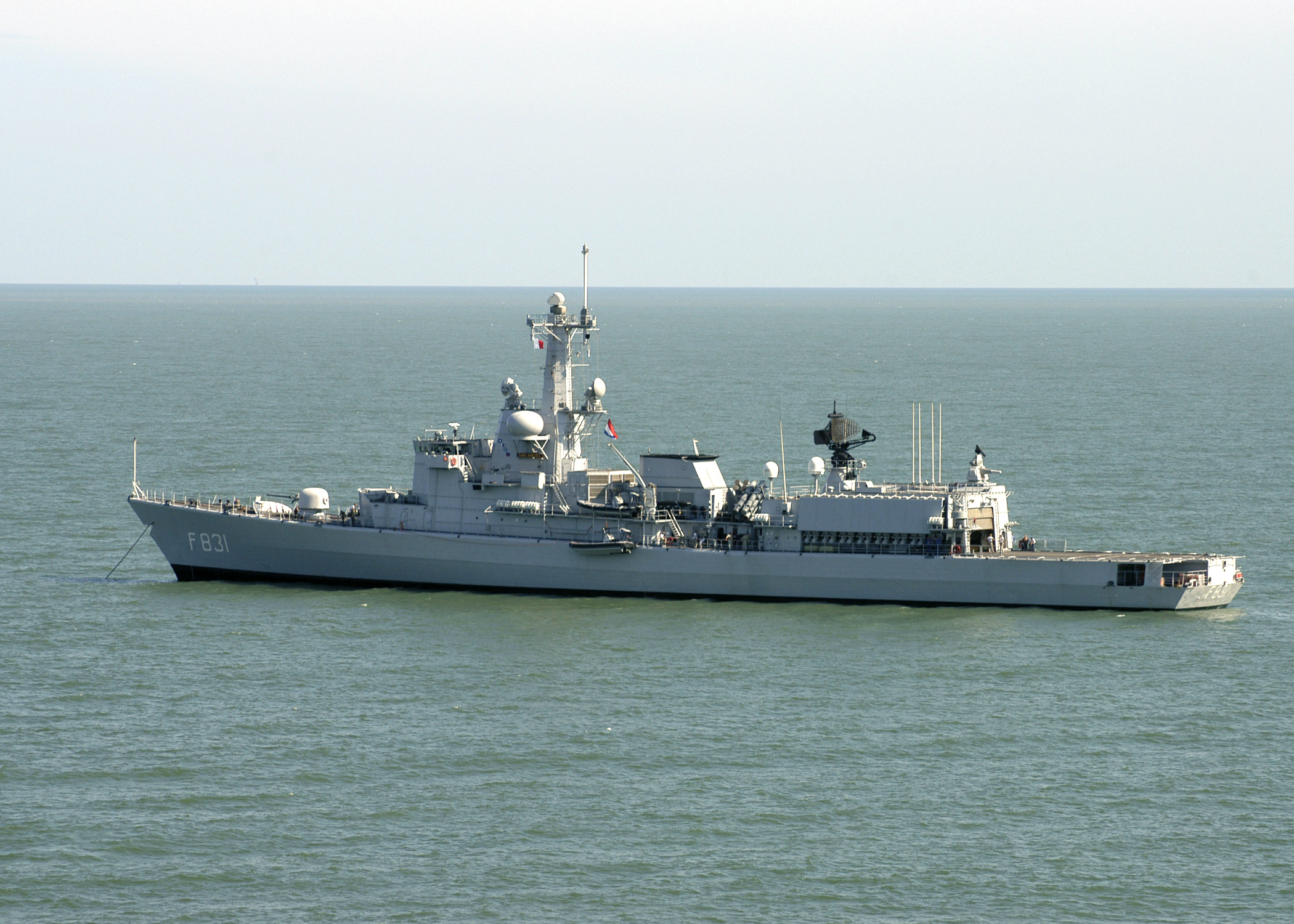 Gulf of Mexico (Sept. 7, 2005) - The Dutch Navy frigate Van Amstel (F 831) conducts operations near the coast of Biloxi, Mississippi as part of the Hurricane Katrina relief effort. The Dutch Navy flew medical personnel ashore from the flight deck of the amphibious assault ship USS Bataan (LHD 5) to help the victims of the hurricane. The Navy's involvement in the Hurricane Katrina humanitarian assistance operations is led by the Federal Emergency Management Agency (FEMA), in conjunction with the Department of Defense.